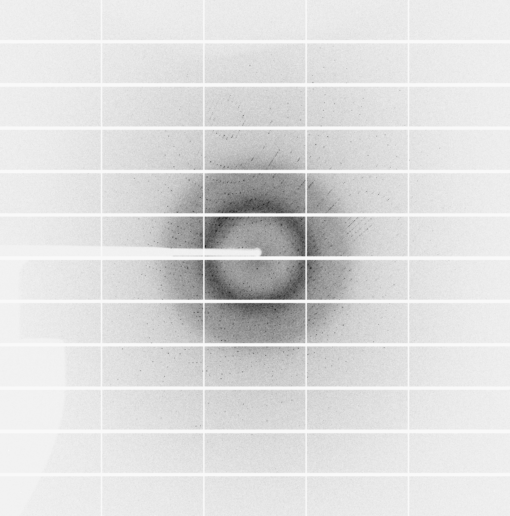 Diffraction pattern of a thaumatin crystal, recorded by the uploader on a Pilatus 6M detector at the HZB MX beamline BL14.1 (4th August 2014, wavelength 0.918A, detector distance 151mm, 1A resolution at the detector edges). The white shadow on the left and center of the image is due to the beam stop. Snapshot of the image taken from the diffraction images viewer xds-viewer.